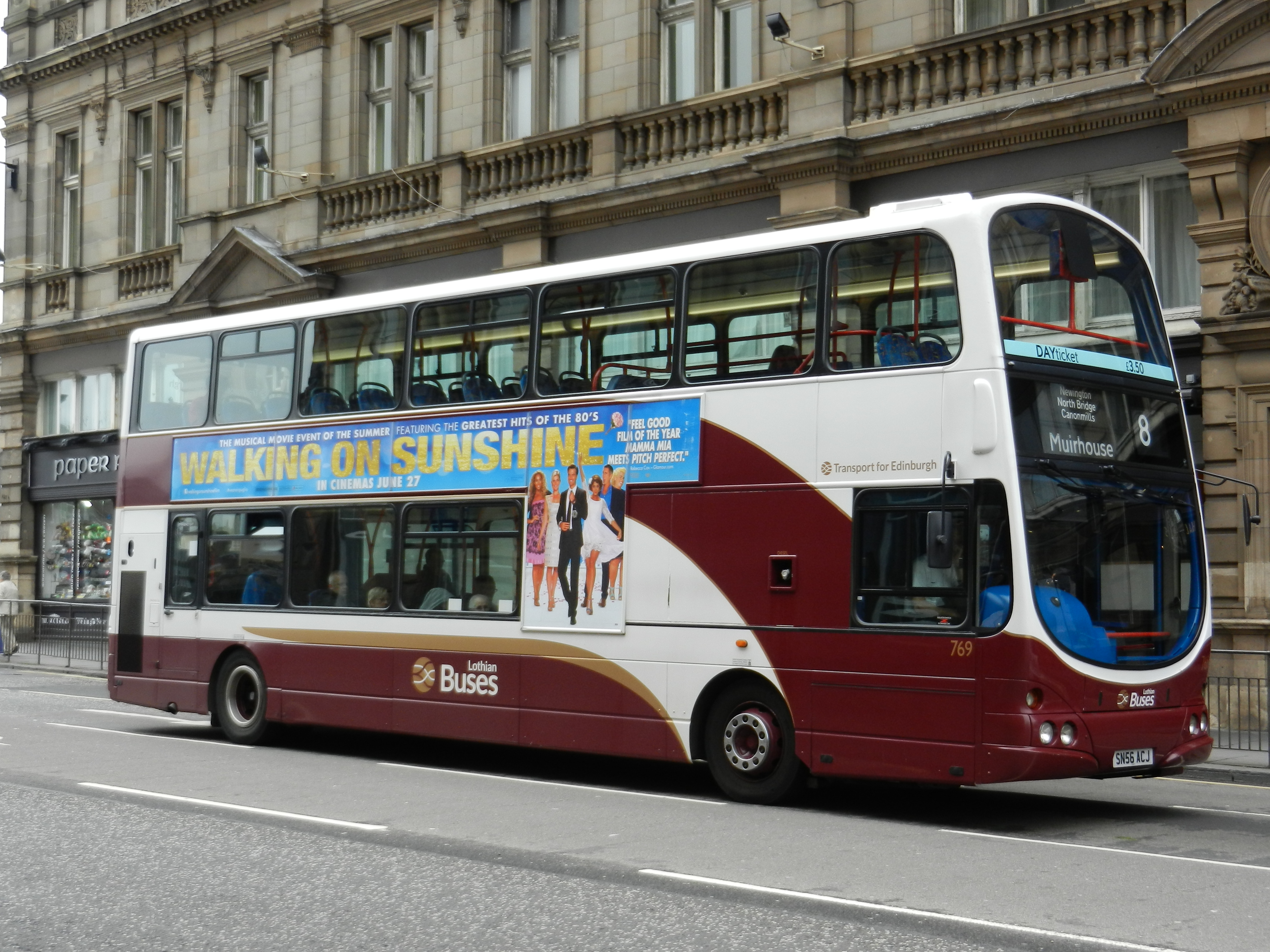 Lothian Buses bus 769 (SN56 ACJ)